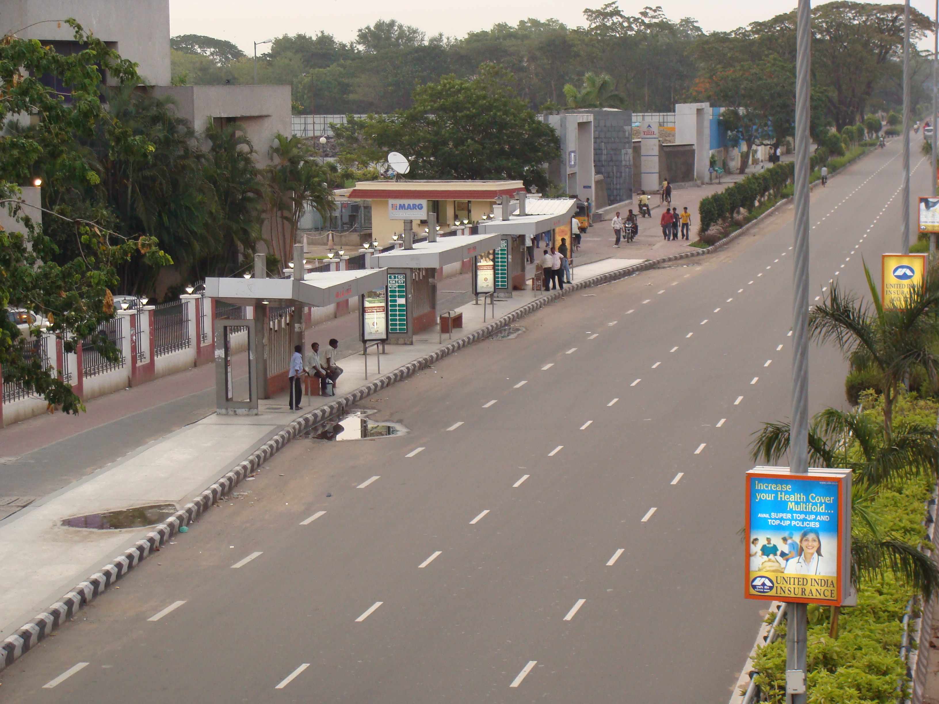 The bus bay in IT corridor infront of TIDEL Park.